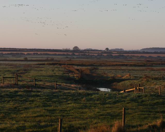 Geese at dawn. Tens of thousands of Pink-footed Geese roost at Holkham or on the saltmarsh at Wells and many fly out at dawn to feed in fields.